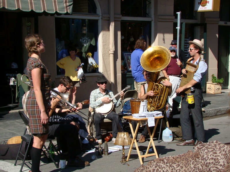 "Tuba Skinny" jazz band in the French Quarter of New Orleans. Tuba Skinny is an illicit quantity of FREAKIN AWESOME